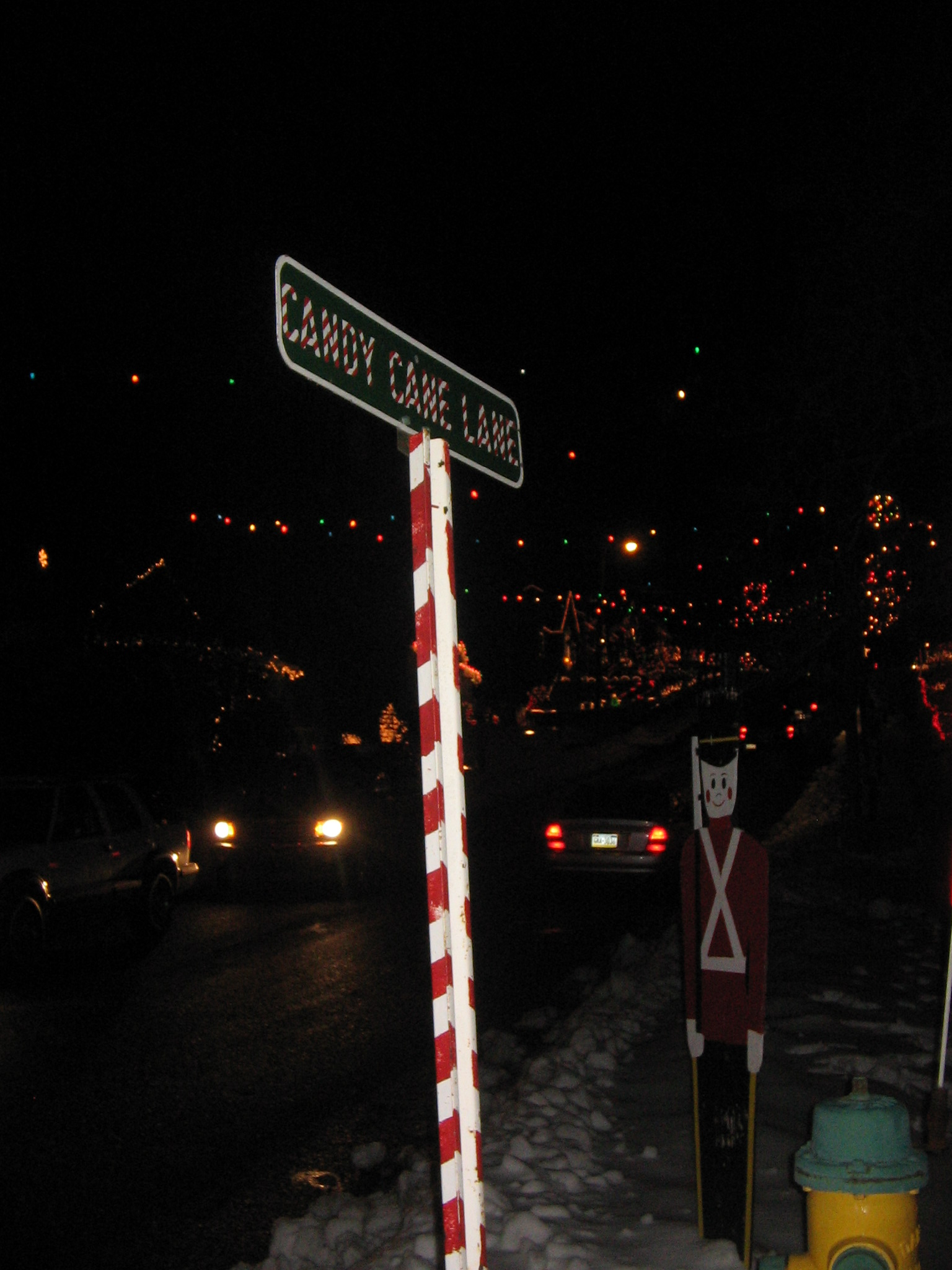 Street sign at bottom of hill of Candy Cane Lane (Summer Street) in Duboistown, Lycoming County, Pennsvlvania, USA.